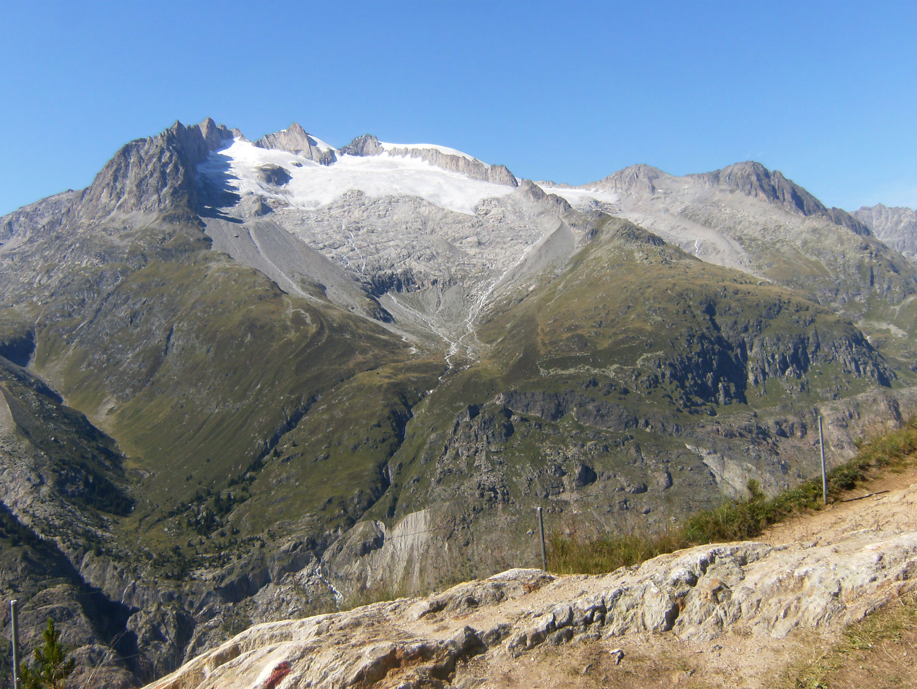 Camera location: Hohfluh (2227 m), Valais, Switzerland.